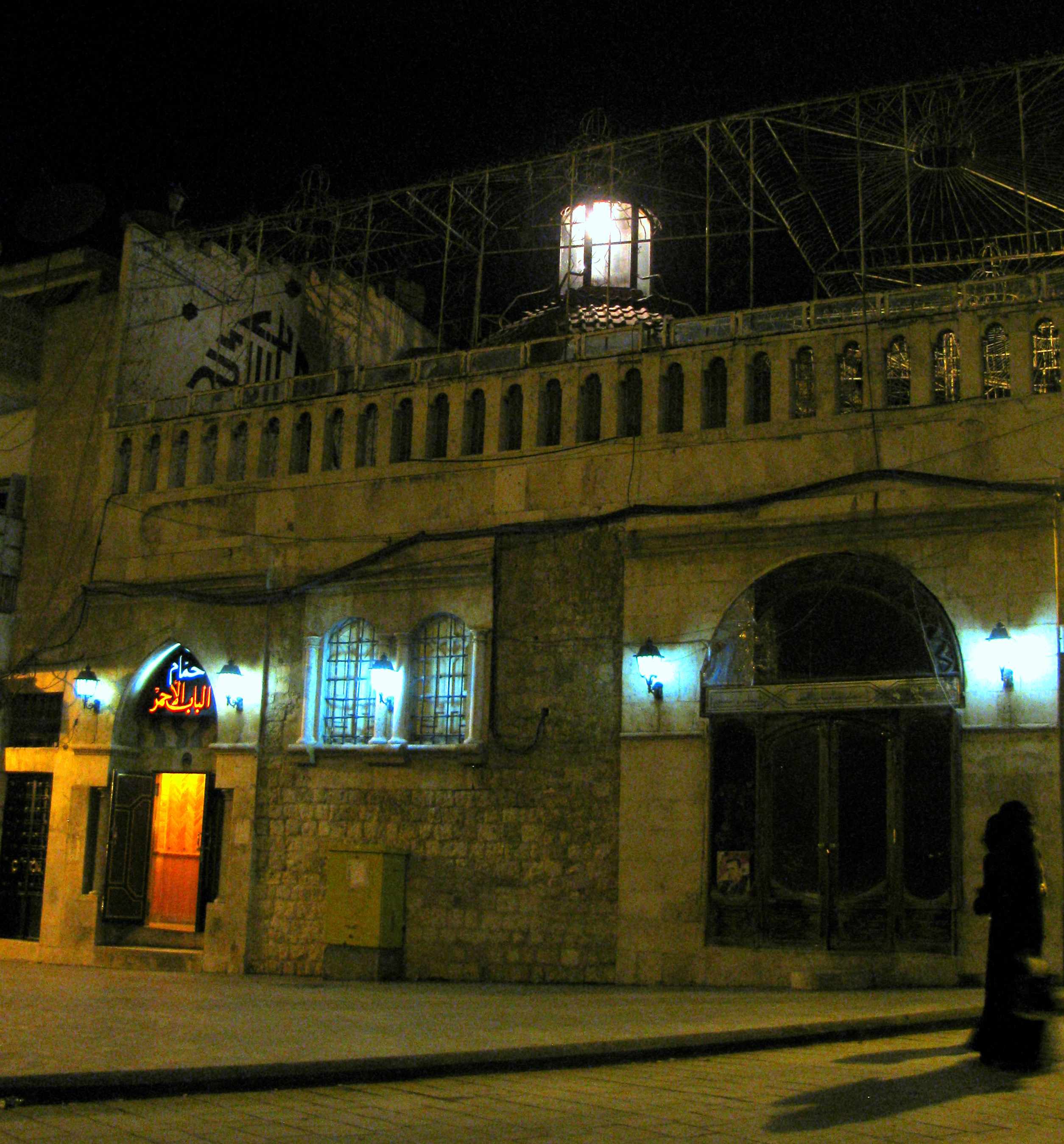 Aleppo, Hammam Bab al-Ahmar.